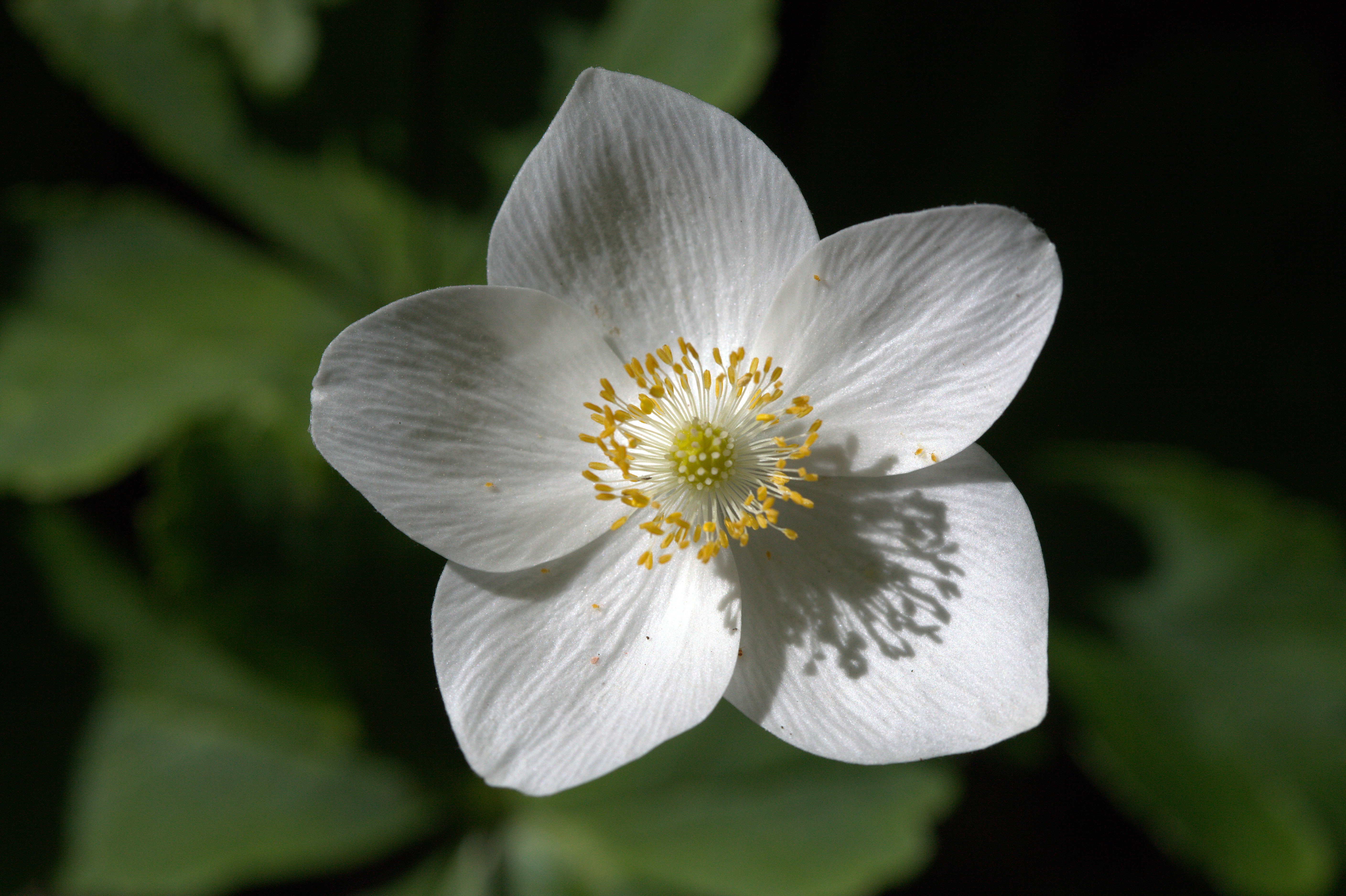 Photo taken at Gothenburg botanical garden. Specimen id: 2006-1938 s G Seed collected in 2006 from a garden (GBT/Korn).